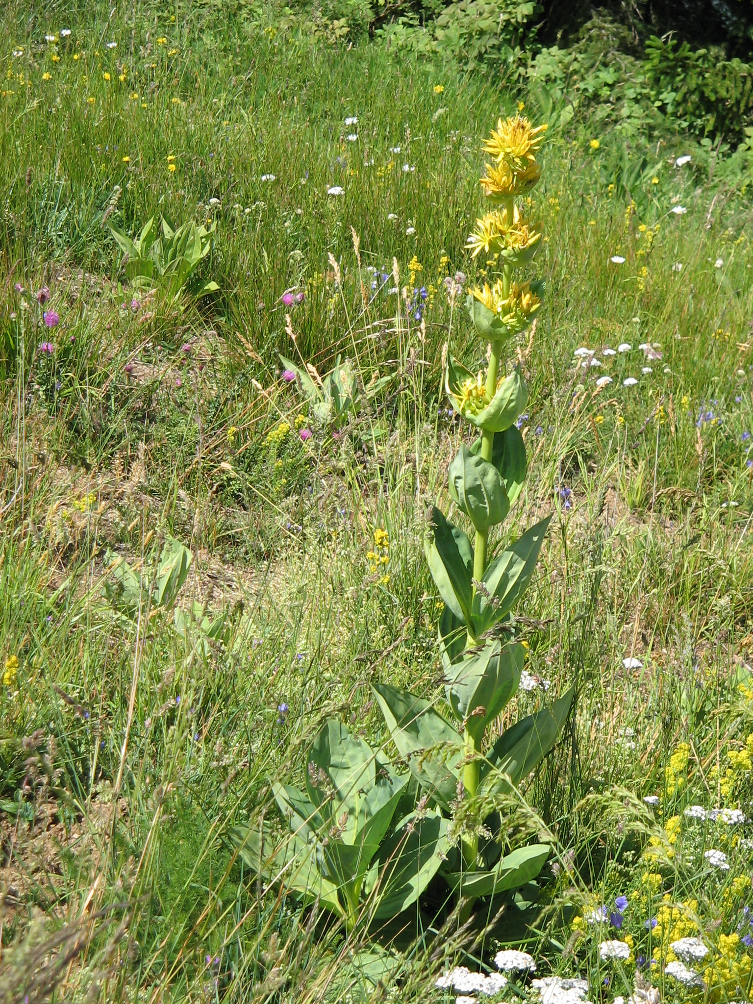 Gentiana lutea